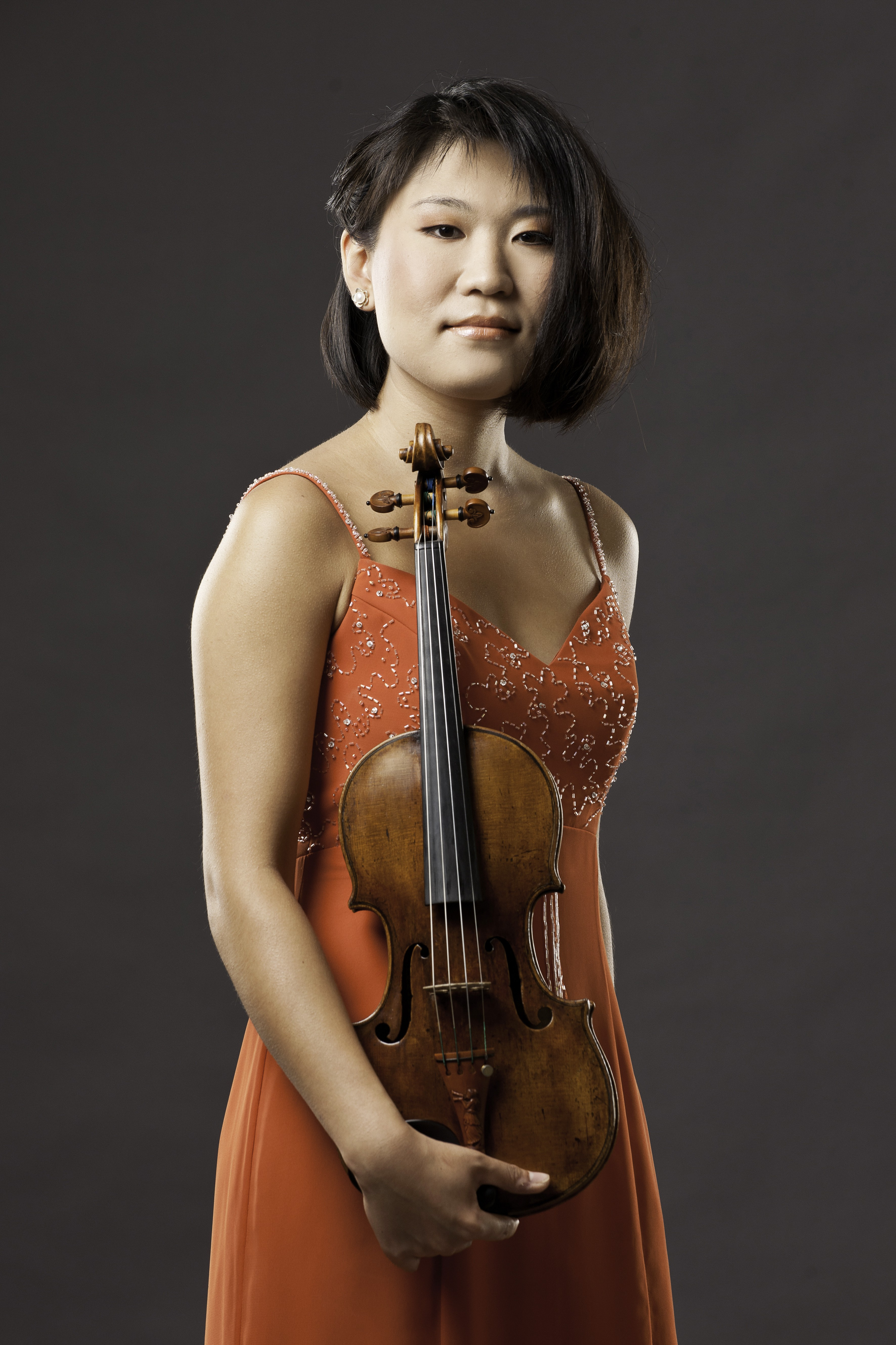 Chinese classical violinist